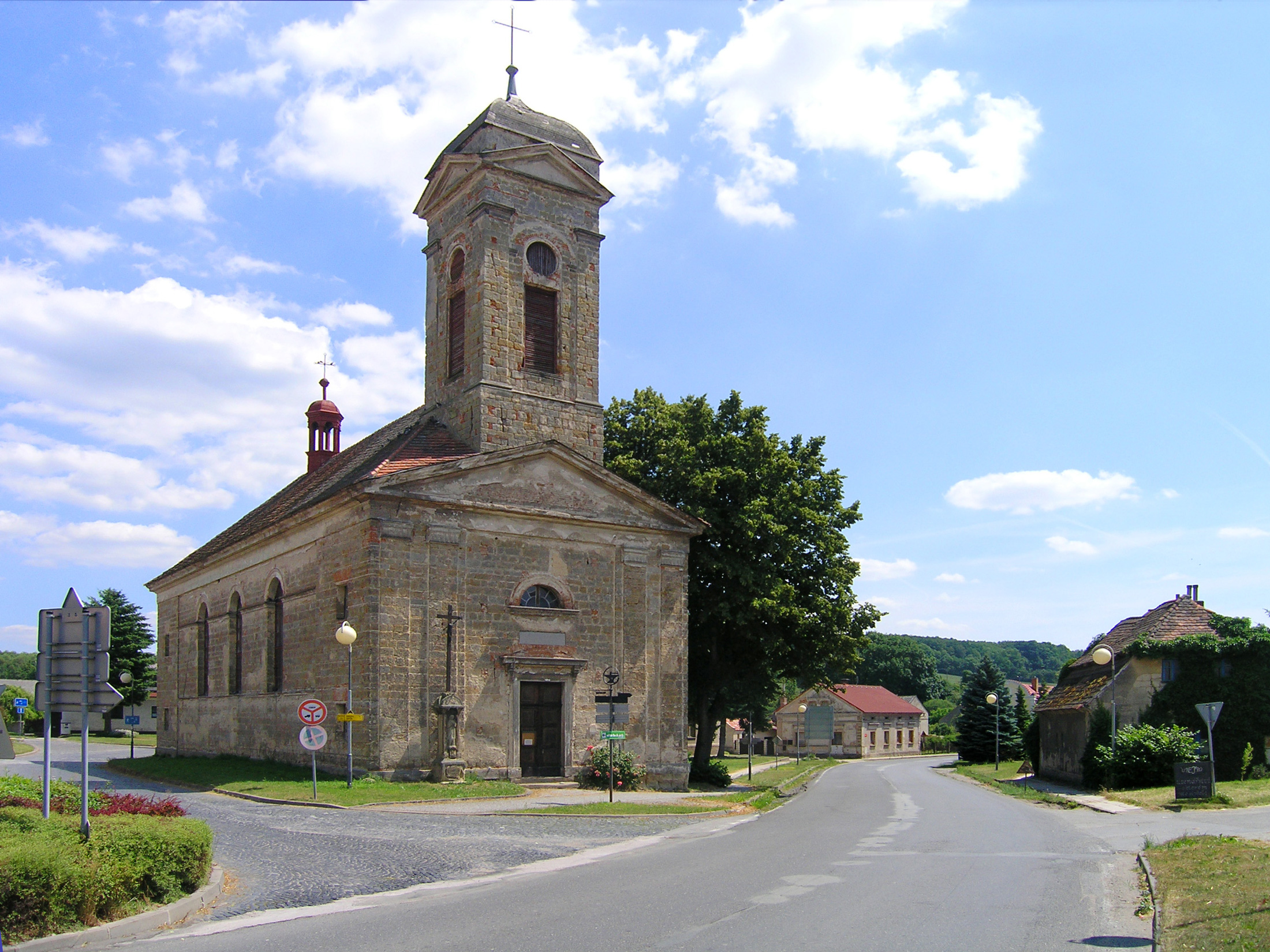 St Francis Seraphicus church in Kněžmost, Mladá Boleslav District, Czech Republic